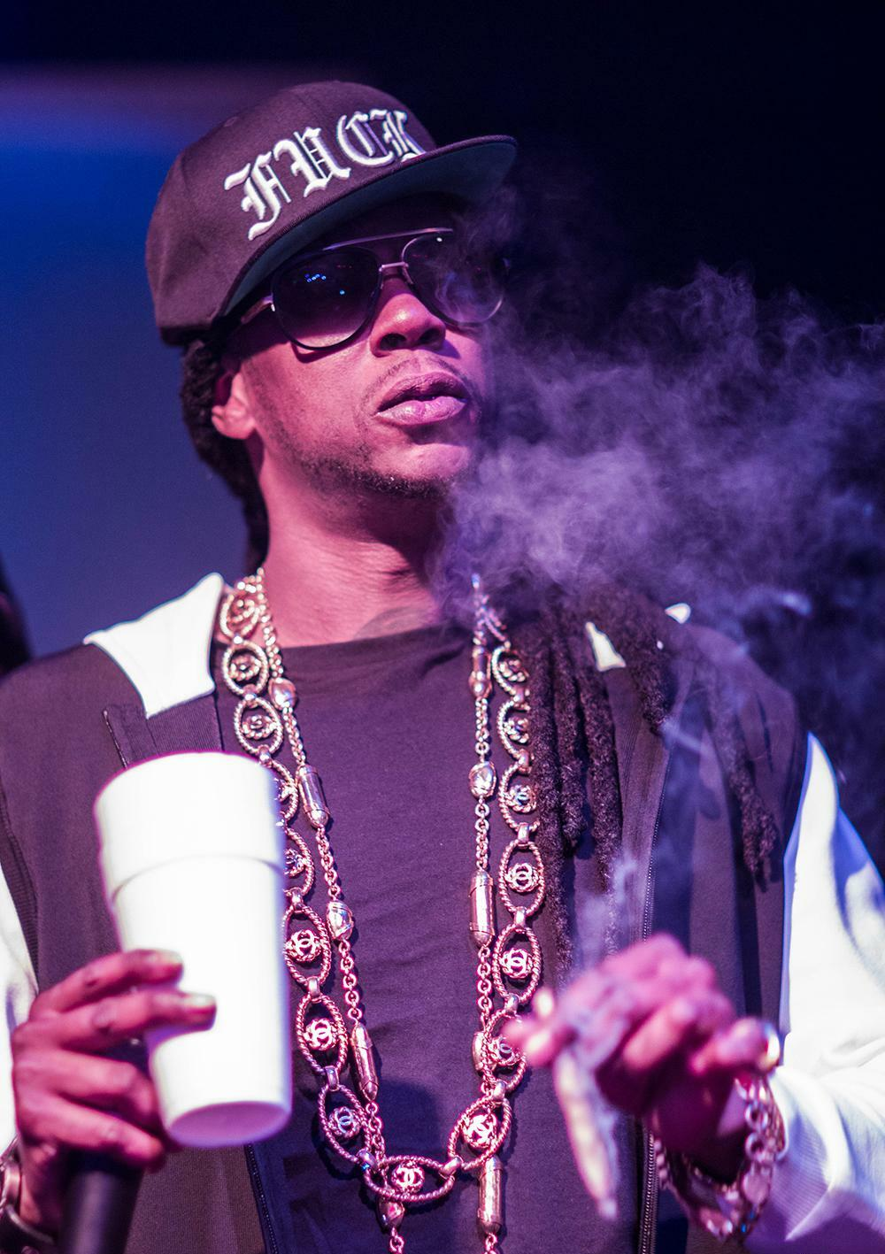 2 Chainz in Orange County.